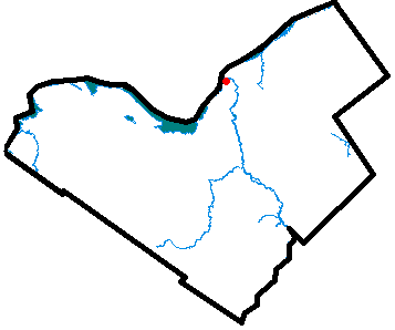 Locator map for Lowertown, Ottawa